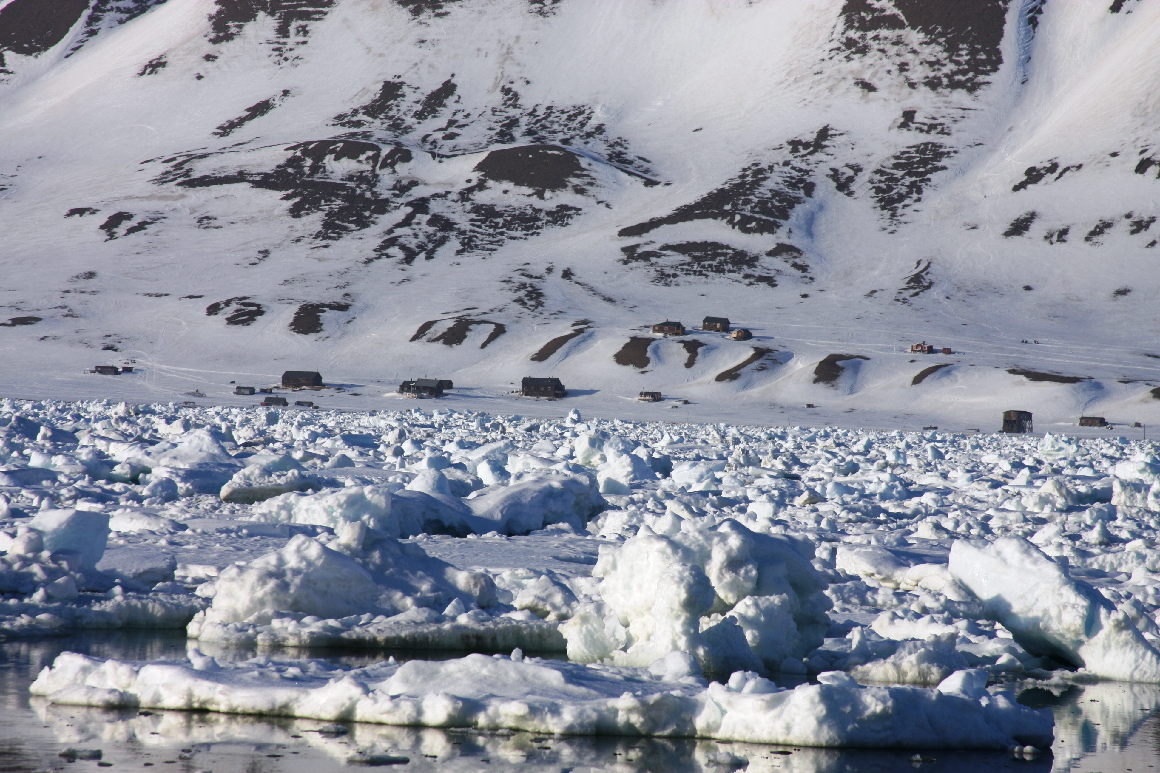 Hjorthamn (Hjorth Harbor), also known as Moskushamn (Moscus Harbor), in Adventfjorden (Advent Fiord), Svalbard